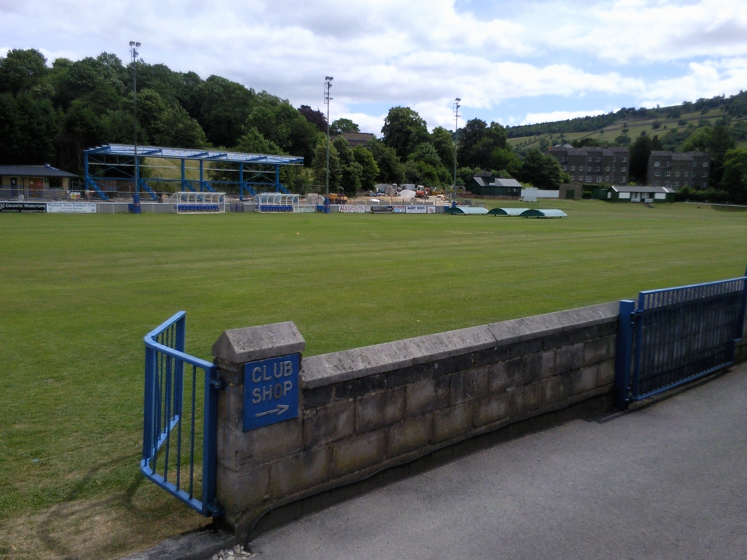 Home stadium of Matlock Town F.C.